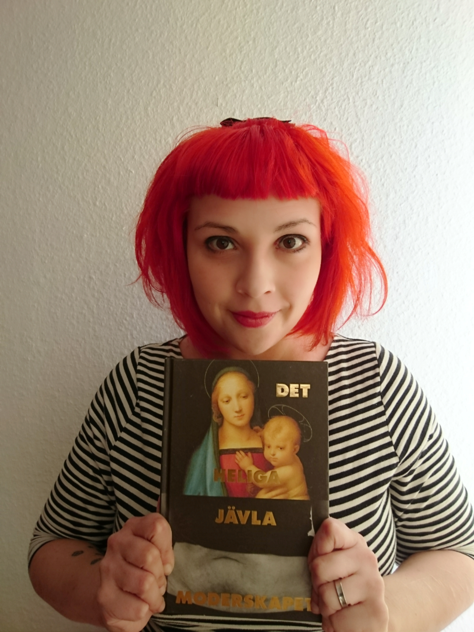 Author Arlene Stridh is holding her debut title Det heliga jävla moderskapet